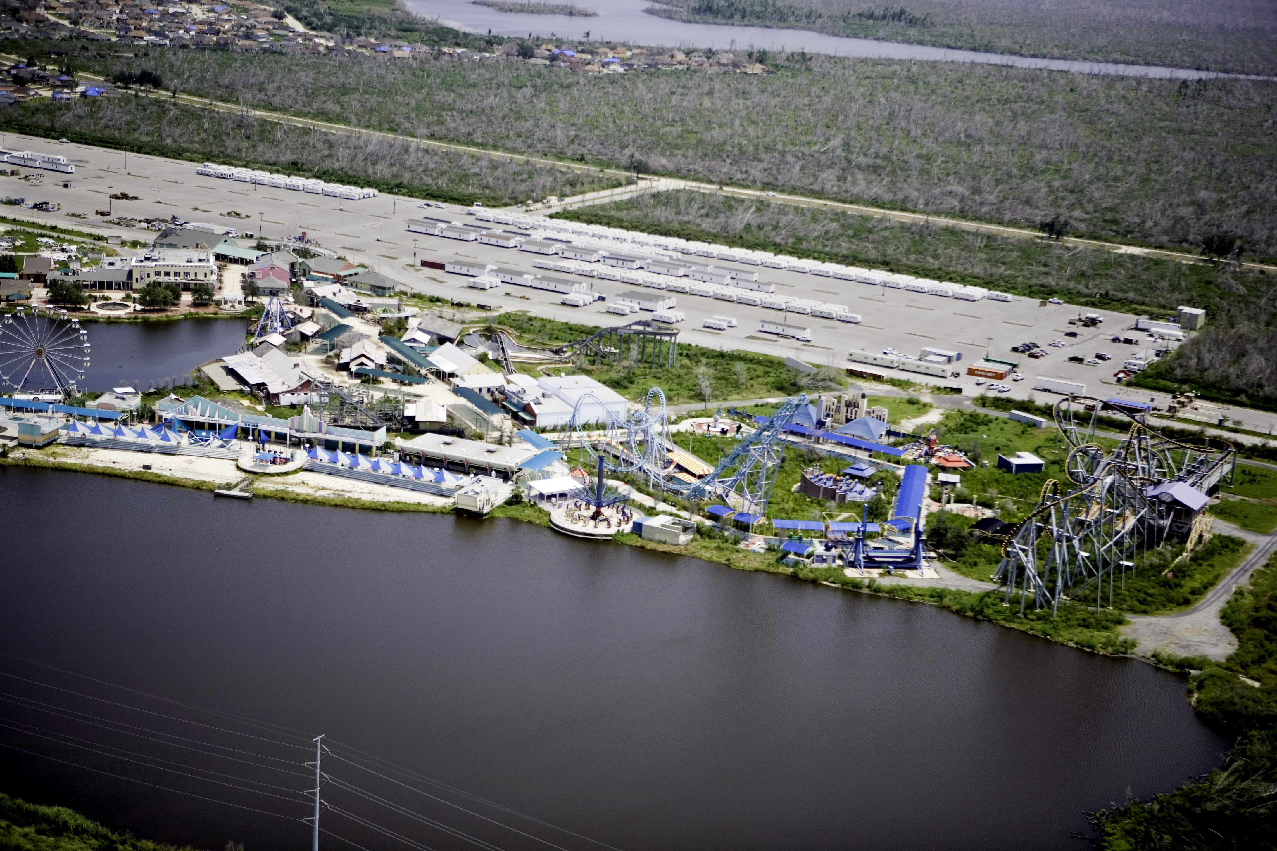 New Orleans East, LA - Six Flags Amusement Park a year after severe damage by Hurricane Katrina. The before picture was taken directly after the hurricane. Reference Library ID 15444. Photo by Ed Edahl/FEMA Notes: Shows the park during a period of some considerable cleanup after the flood disaster and before it was abandoned. Damaged residential neighborhood seen in background.